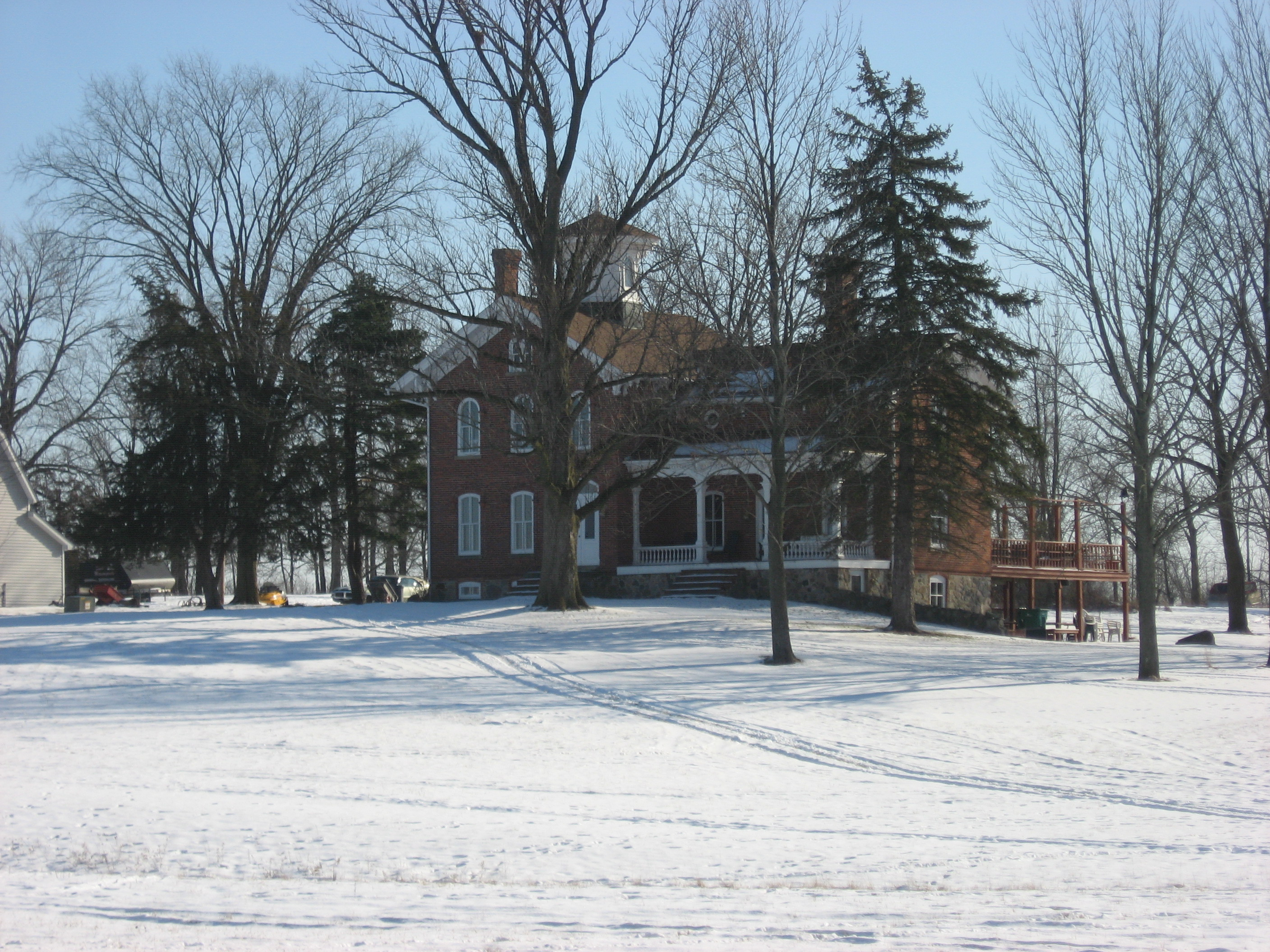 Front of the William Cornell Homestead, located at 2132 County Road 68 southwest of Auburn in Butler Township, DeKalb County, Indiana, United States. Built in 1863, it is listed on the National Register of Historic Places.